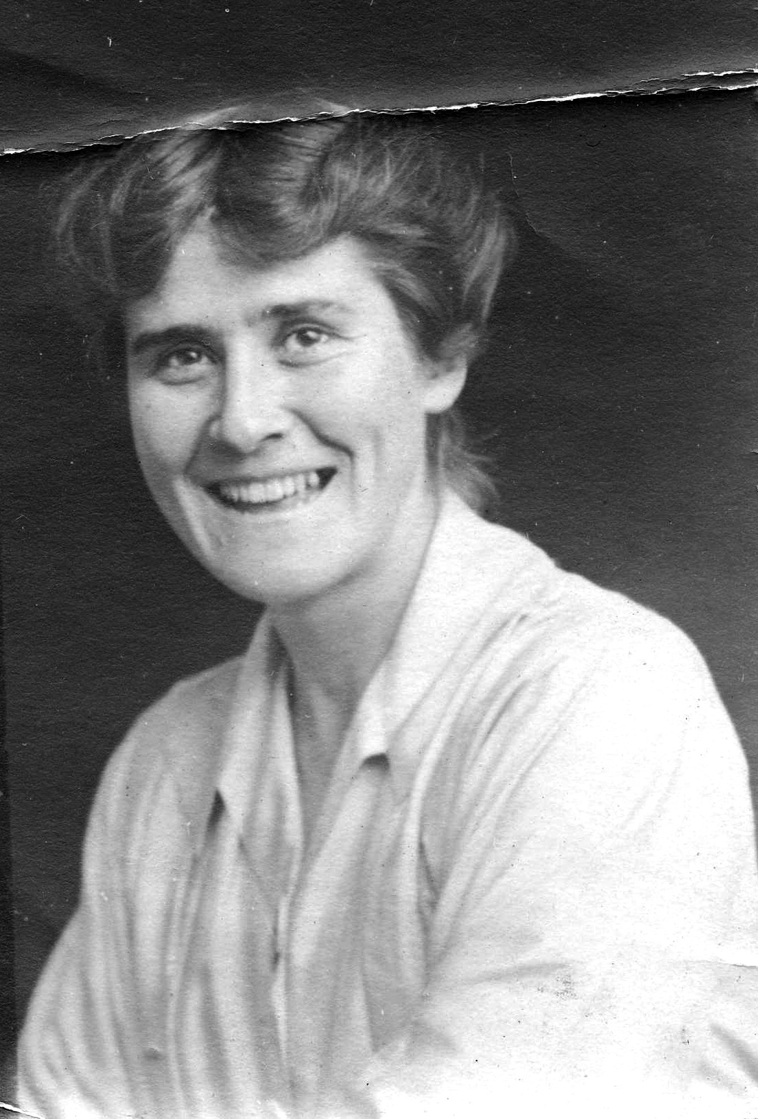 Passport photograph of Miss Anne Laugharne Phillips Griffith-Jones, OBE (1890-1973)